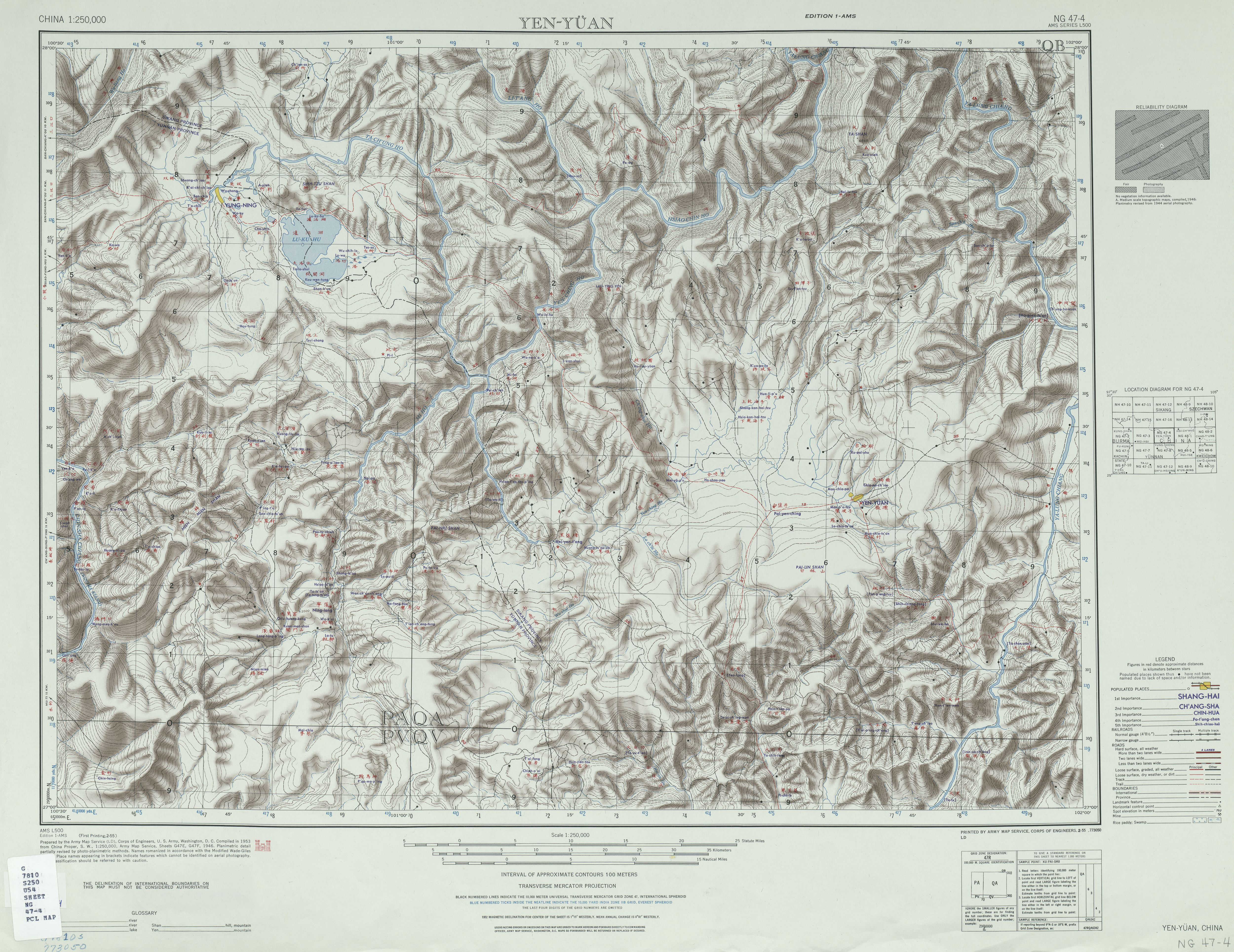 Map of Yanyuan (Yen-yüan) area, Sichuan